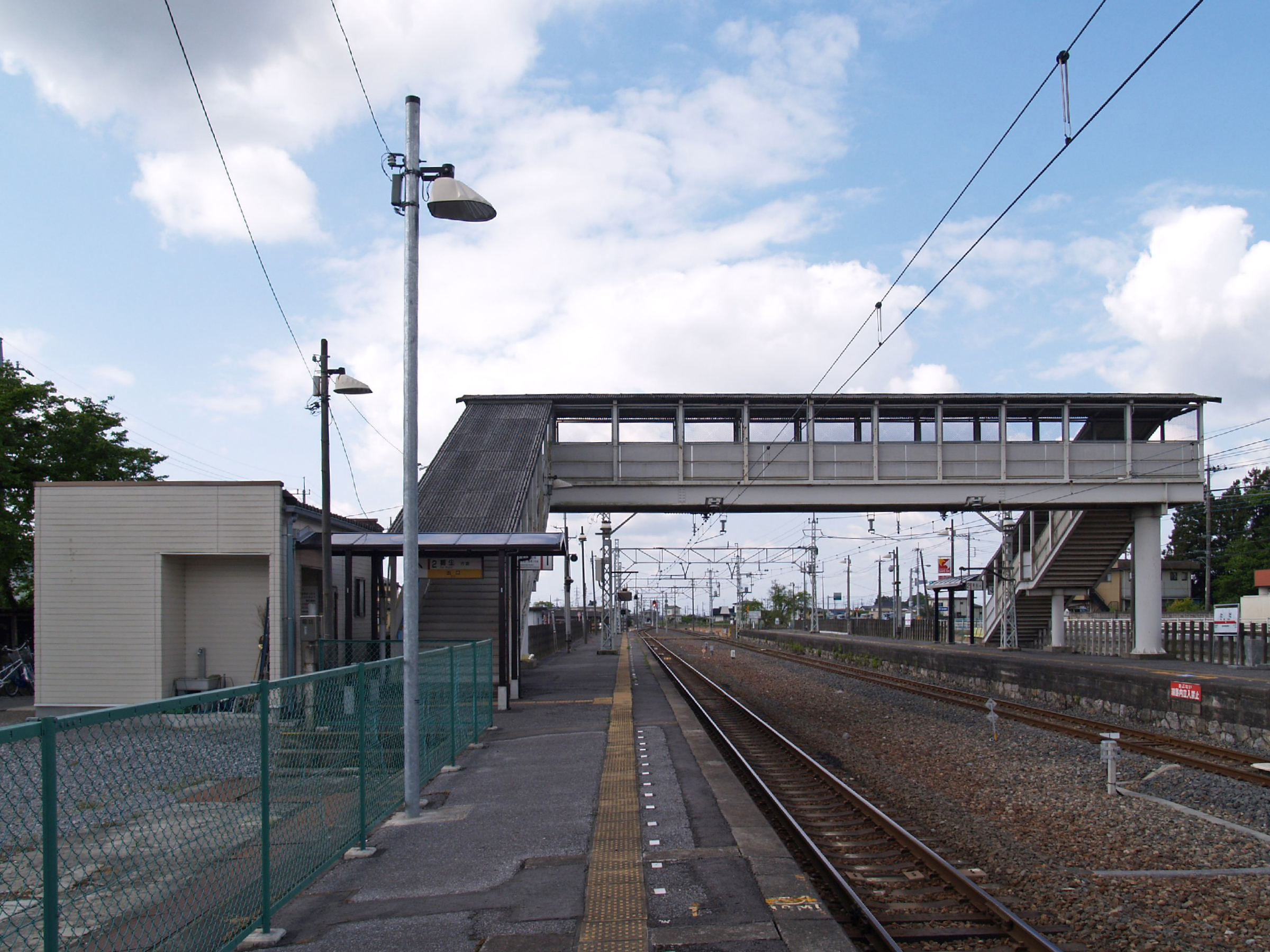 The platforms at Tada Station on the Tobu Sano Line in Tochigi Prefecture, Japan